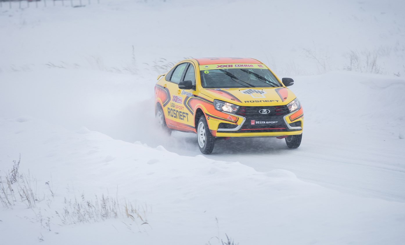 Nezvankin, Lada Vesta 1.8, Christmas Race 2019